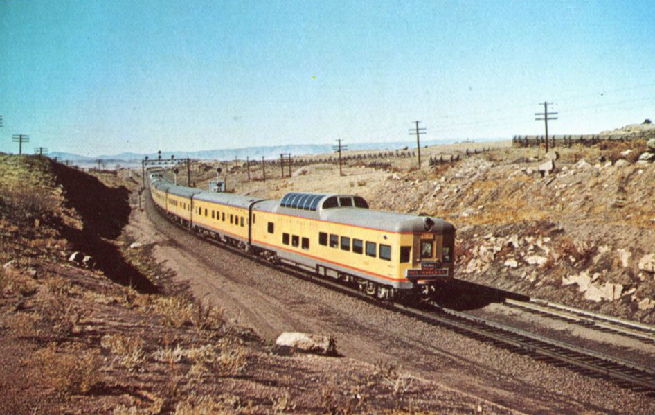 Postcard photo of the Union Pacific train "City of Los Angeles". This is the dome lounge car.